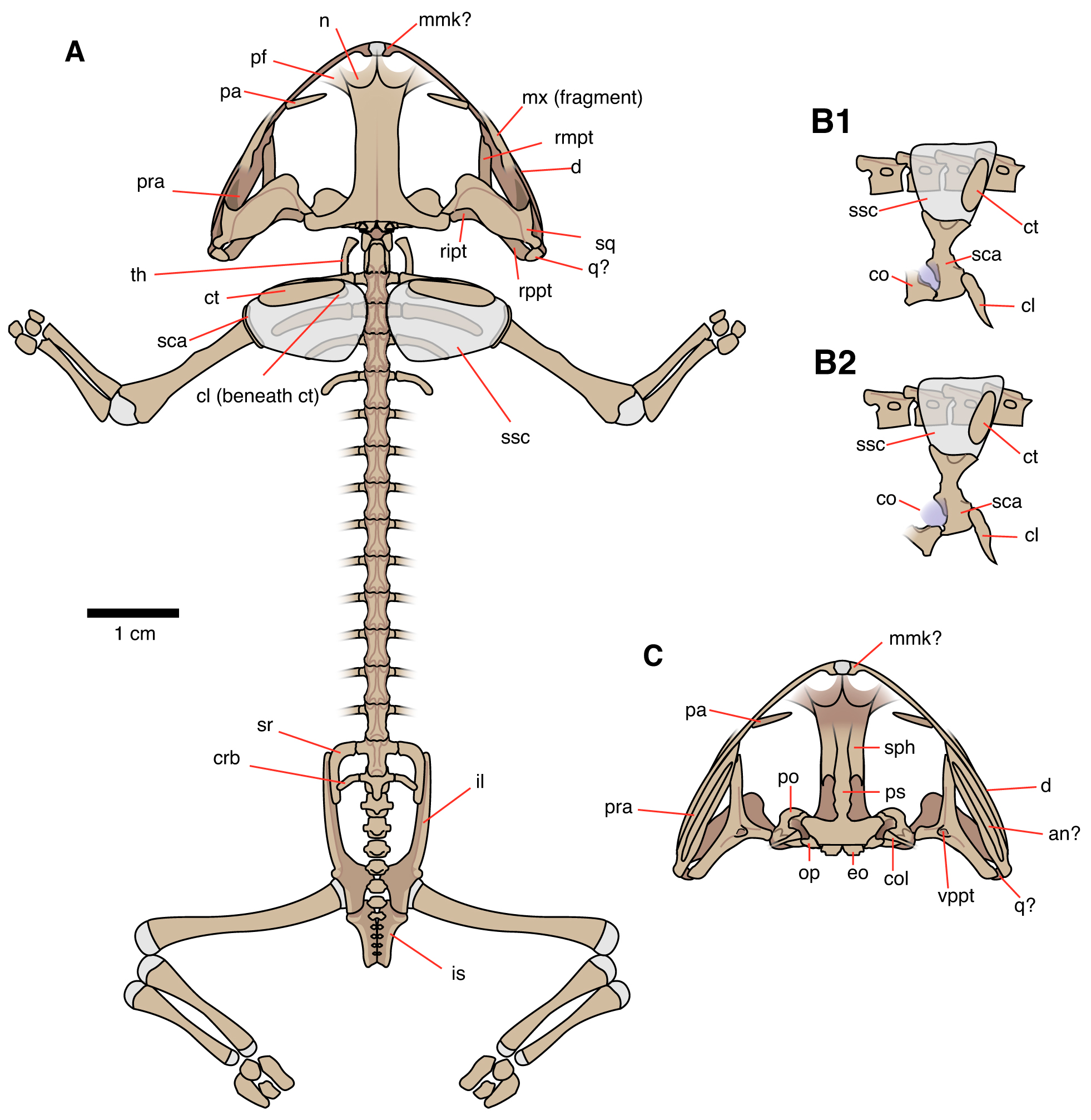 Fig. 12. Interpretative reconstructions of the skeleton of Triadobatrachus massinoti in dorsal view (A), the two possible articulations of the right pectoral girdle in lateral view (B), and the skull in ventral view (C). A few cartilages have been reconstructed (in grey) for illustration purposes only; the actual size and shape of the suprascapula is unknown. The position and orientation of the clavicle and the cleithrum are uncertain. This reconstruction features a ‘broad’ pelvis, with the contact between the ischia limited to their ventral margins, and the sacral ribs resting mostly between the iliac shafts. The pectoral girdle reconstruction B1 features a compact configuration similar to that of Czatkobatrachus (Borsuk-Białynicka and Evans, 2002), in which the glenoid is oriented more laterally. Reconstruction B2 features a configuration closer to that of extant anurans. Note that a hypothetical stylar process has been added to the columellae, and that we made no attempt to reconstruct the ventromedial process of the pterygoid, as we have no anatomical equivalents in other amphibians to base a reconstruction upon. an, angular; cl, clavicle; co, coracoid or coracoidal part of the scapulocoracoid; crb, caudal rib; ct, cleithrum; d, dentary; eo, exoccipital; il, ilium; is, ischium; mmk?, mentomeckelian or lingual process; mx, maxilla; n, nasal; op, opisthotic; pa, palatine; pf, prefrontal; po, prootic; pra, prearticular; ps, parasphenoid; ript, internal ramus of the pterygoid; rmpt, maxillary ramus of the pterygoid; rppt, posterior ramus of the pterygoid; sca, scapula or scapular part of the scapulocoracoid; ssc, suprascapula; sph, sphenethmoid; sr, sacral rib; th, thyrohyal; q, ?quadrate; vppt, ventral process of the pterygoid.